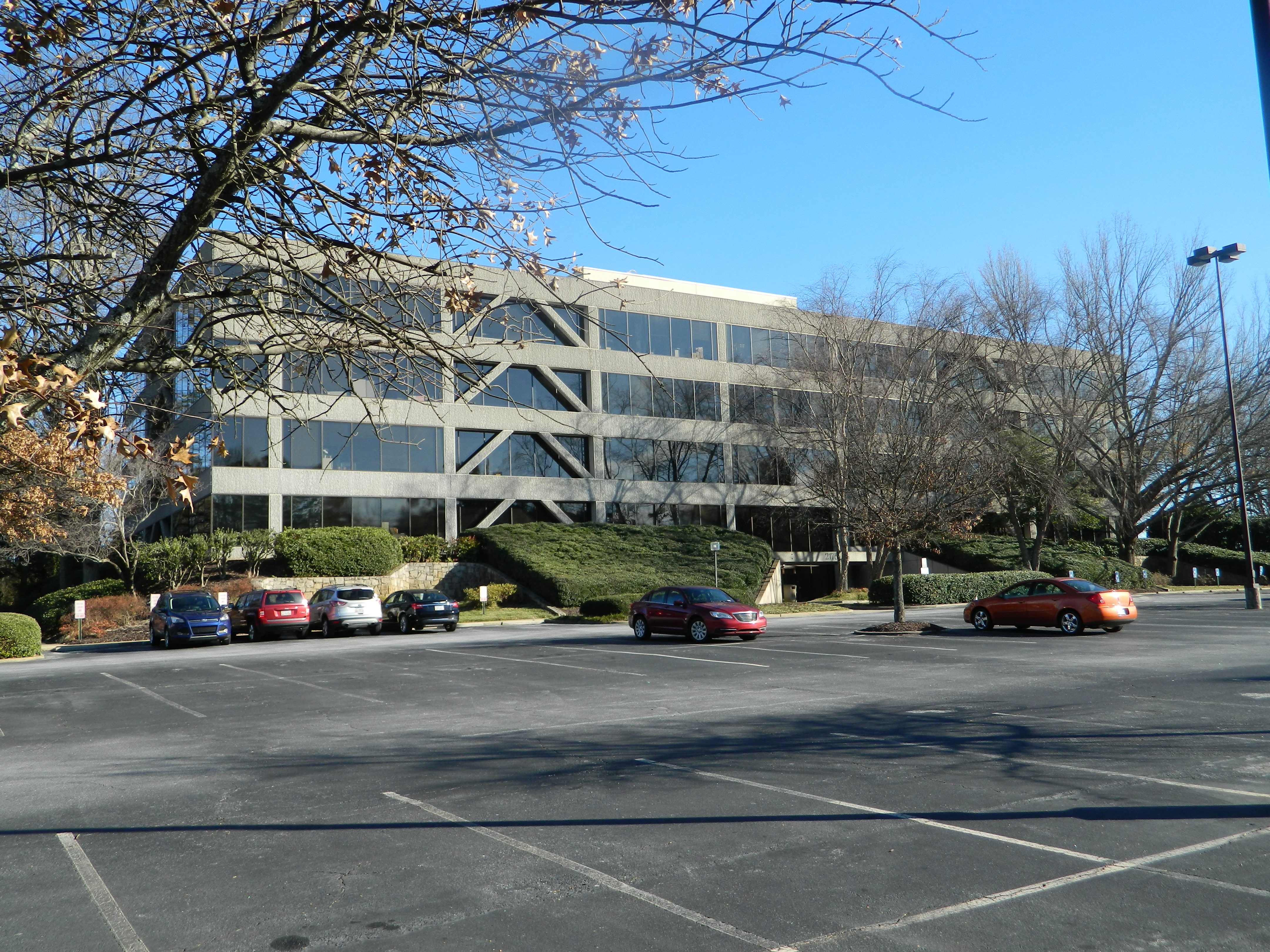 Kroger Atlanta Division Office - Northlake area - DeKalb County, Georgia